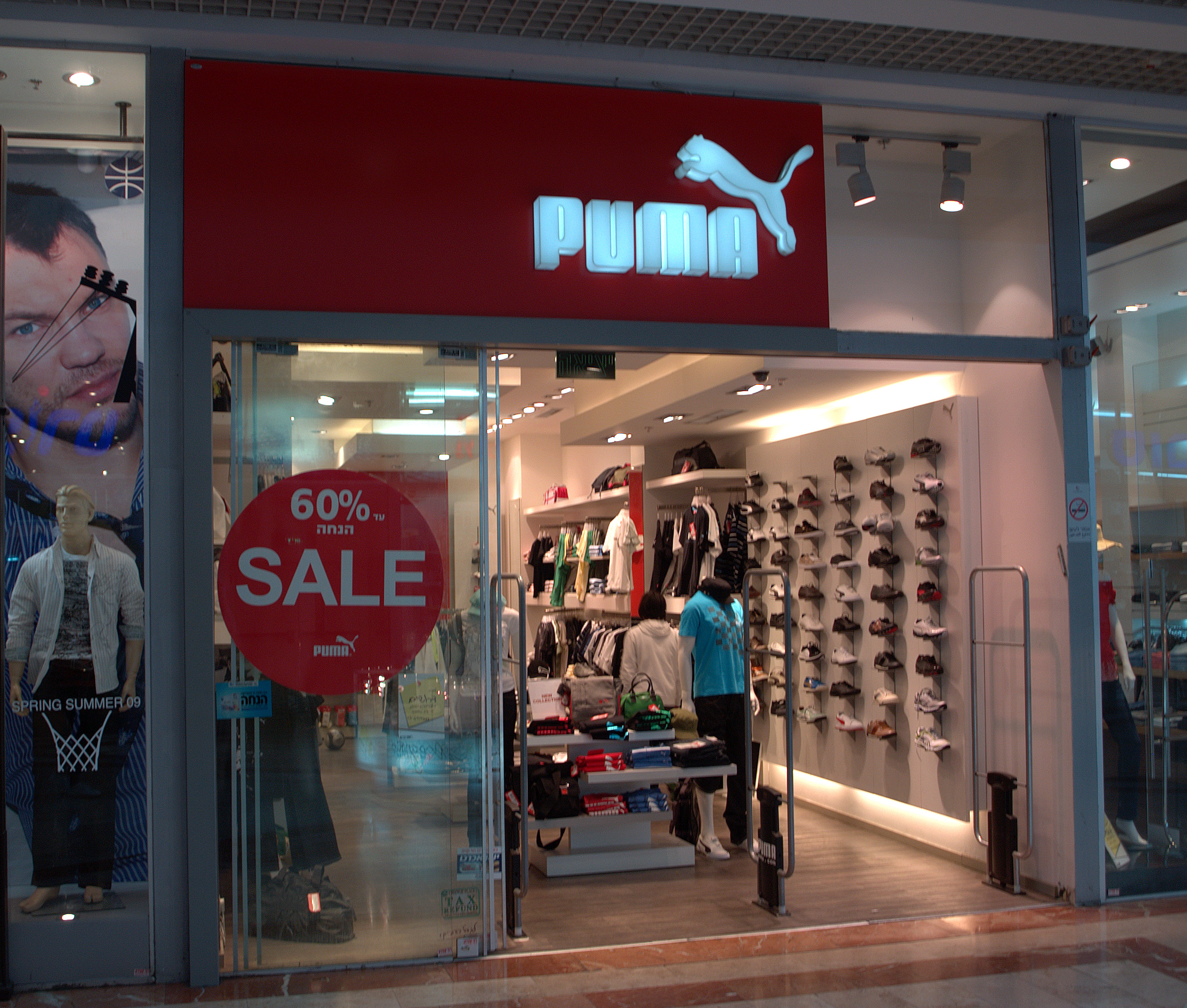 Puma store in Tel Aviv, Israel.